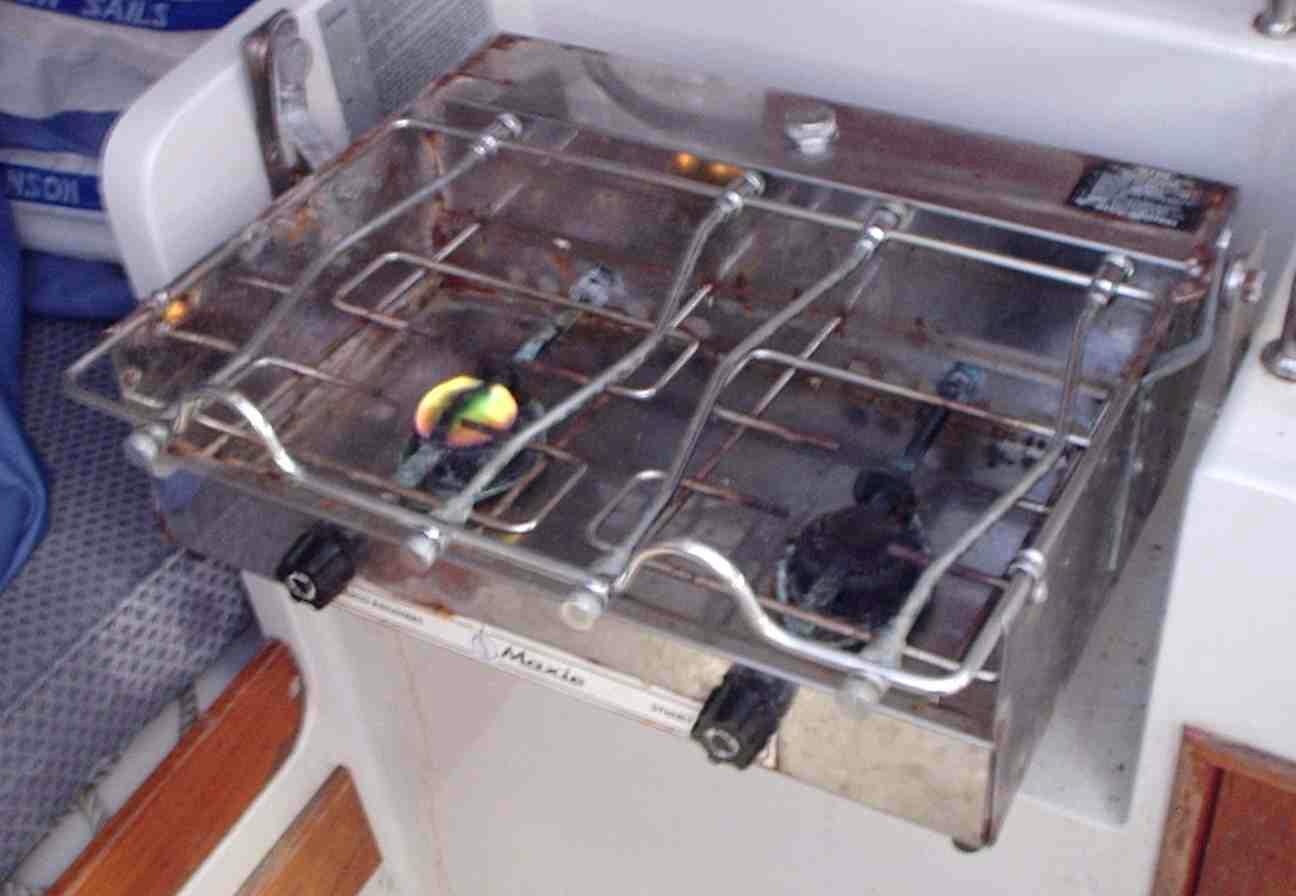 Spirit stove installed on a small ocean racing yacht. This is the two-burner methylated spirit stove installed on the Category 2 ocean racer Jayhawk, a J35 based at Royal Prince Alfred Yacht Club, Newport, Sydney, Australia. This is an original photograph by Andrew Alder, taken on 4 May 2004.